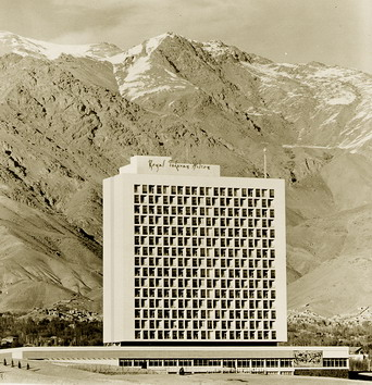 Photo Owned by Yves Ghiai